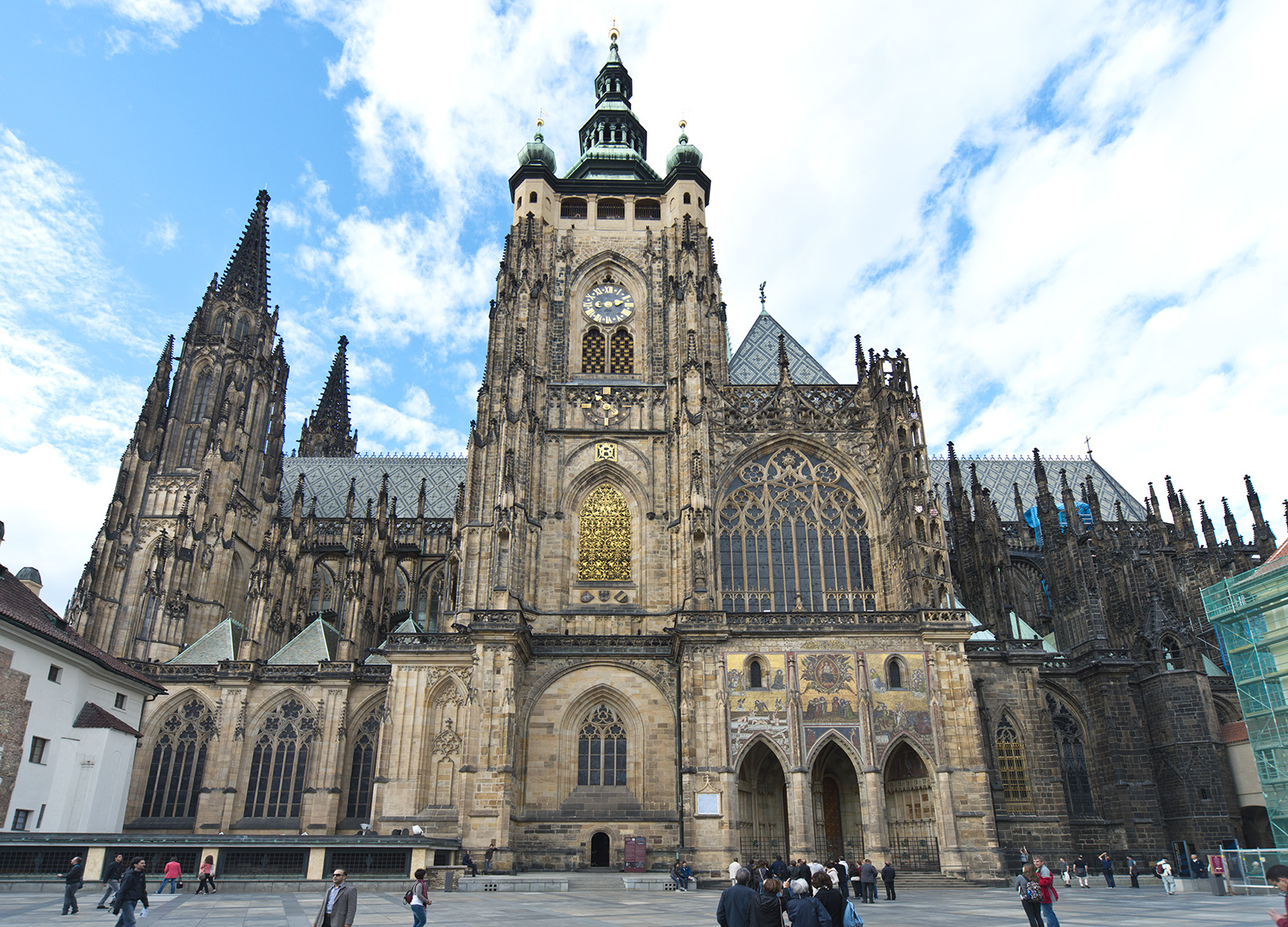 St Vitus's Cathedral